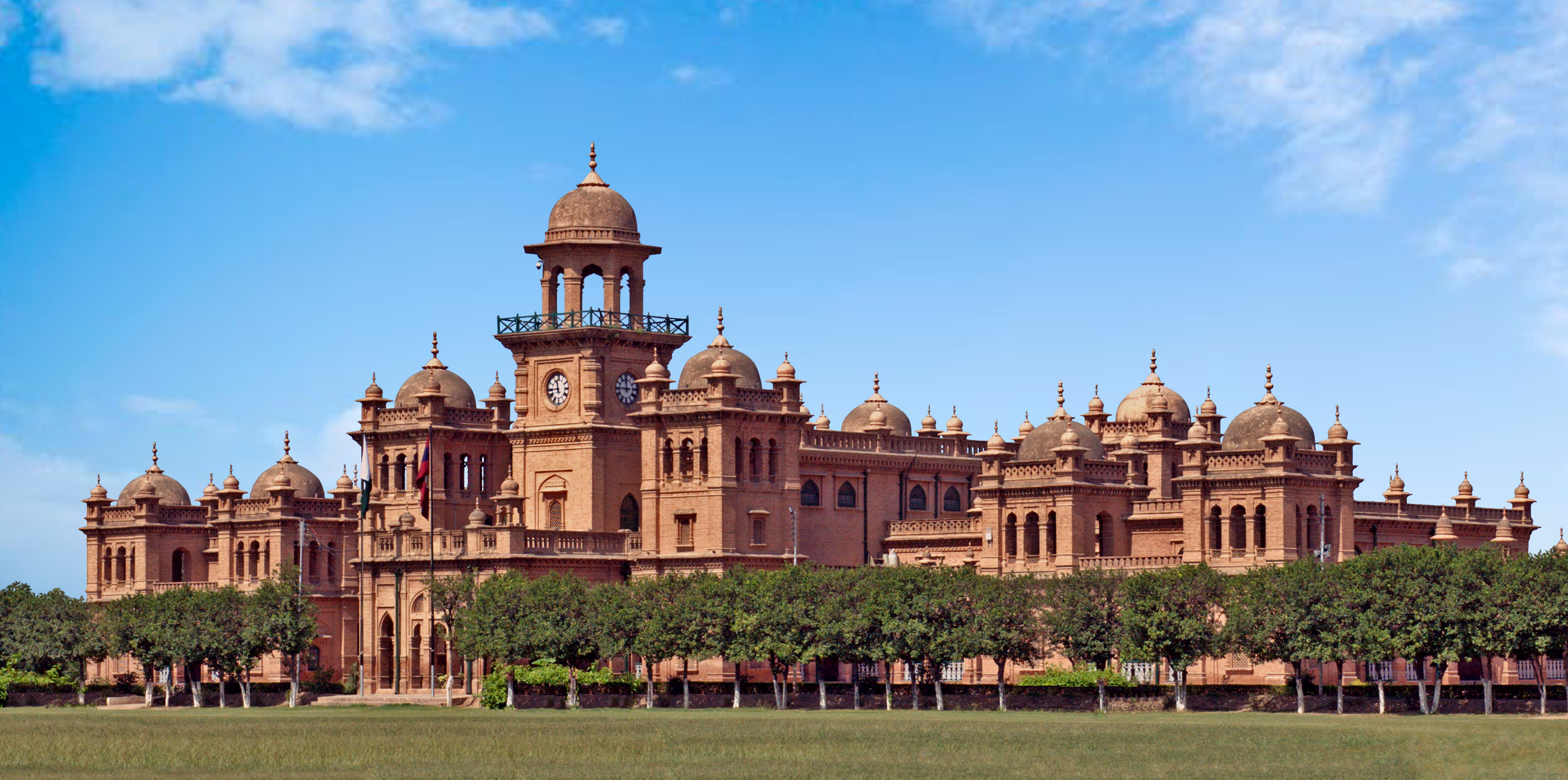 Islamia College Peshawar (Public Sector University), Khyber Pakhtunkhwa, Pakistan